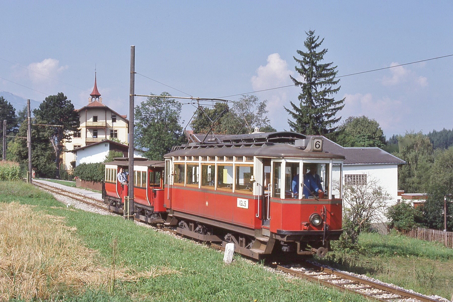 Innsbruck double-truck tram No. 2 (built in 1909), hauling two 2-axle trailers, en route to Igls on route 6, in 1977. Both types of cars were retired from normal service in 1981.